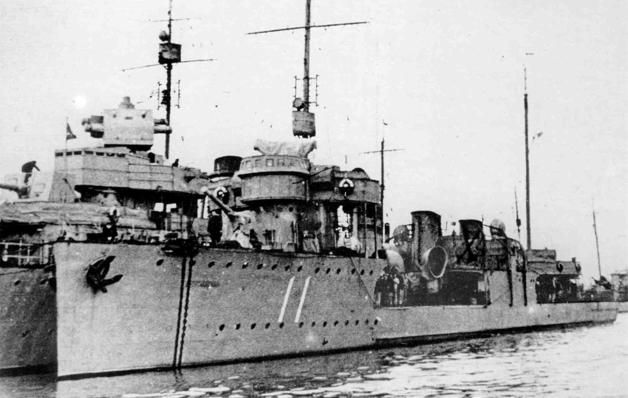 Soviet destroyer Dzerzhinskii, 1941.